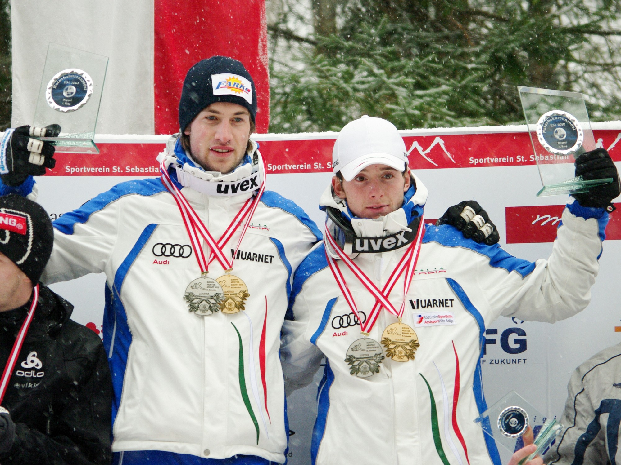 FIL European Luge Natural Track Championships 2010, Prize giving ceremony men's doubles: 1st place: Patrick Pigneter / Florian Clara (ITA).